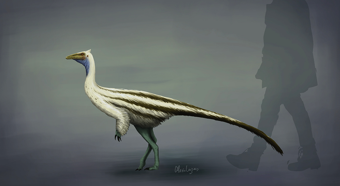 Pelecanimimus reconstruction 2019